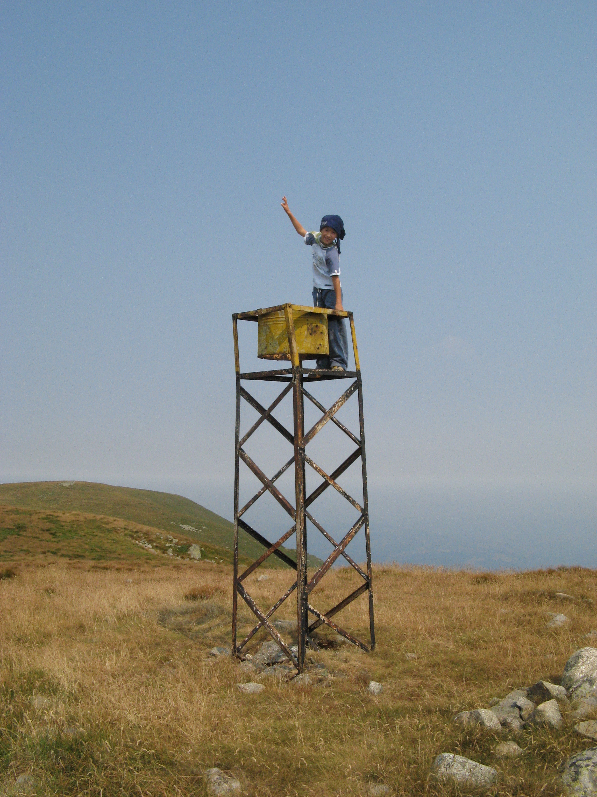 Vejen peak